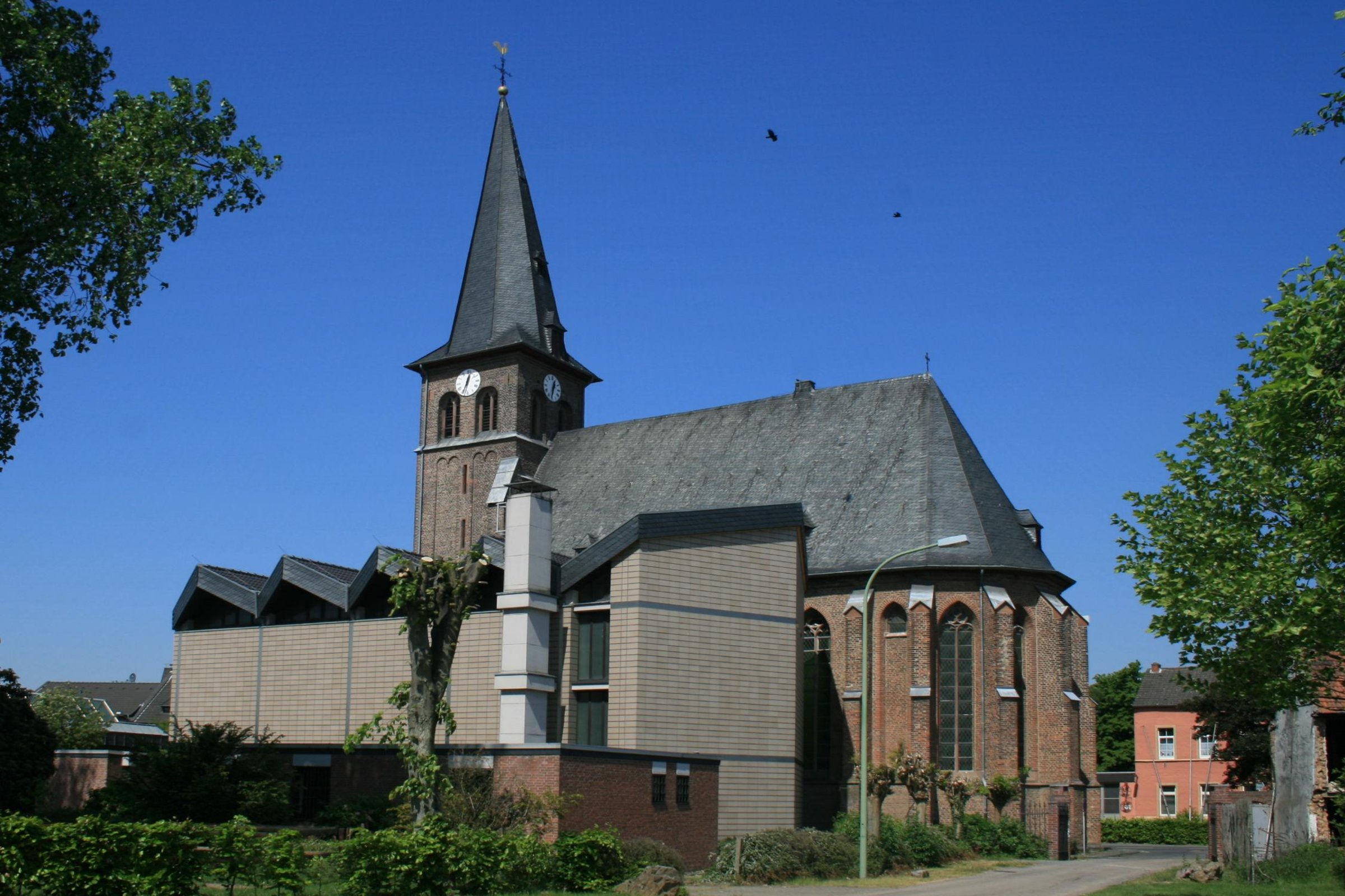 Cultural heritage monument No. 3 in Niederzier